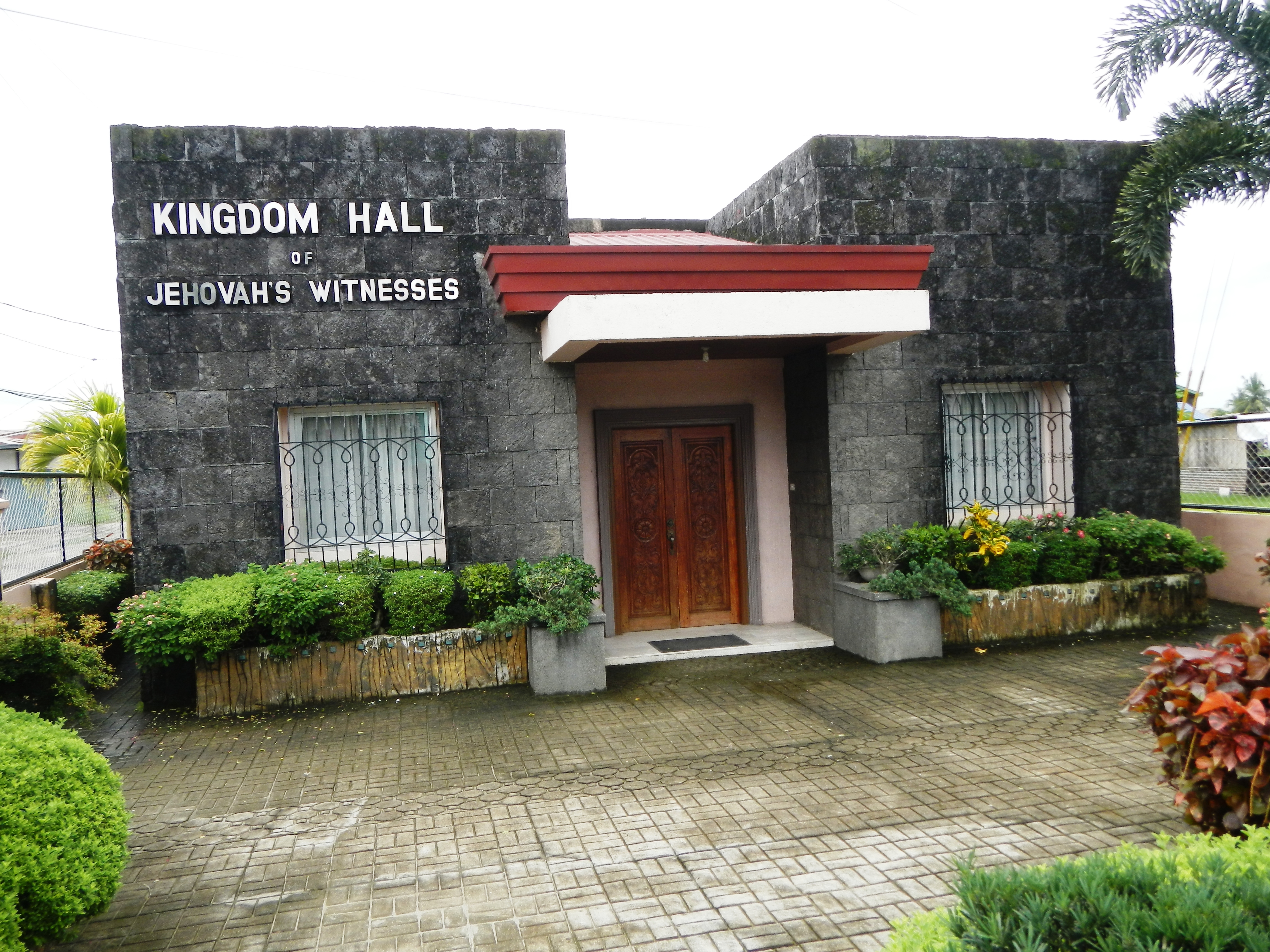 Pandi, Bulacan Barangay Manatal, Pandi, Bulacan Barangay Hall beside the Elementary School, the Jehovah's Witnesses Kingdom Hall near the San Antonio de Padua Chapel, along the interior Pandi-Angat-Baliuag-Bustos-Plaridel-Santa Maria, Bulacan Provincial Road.